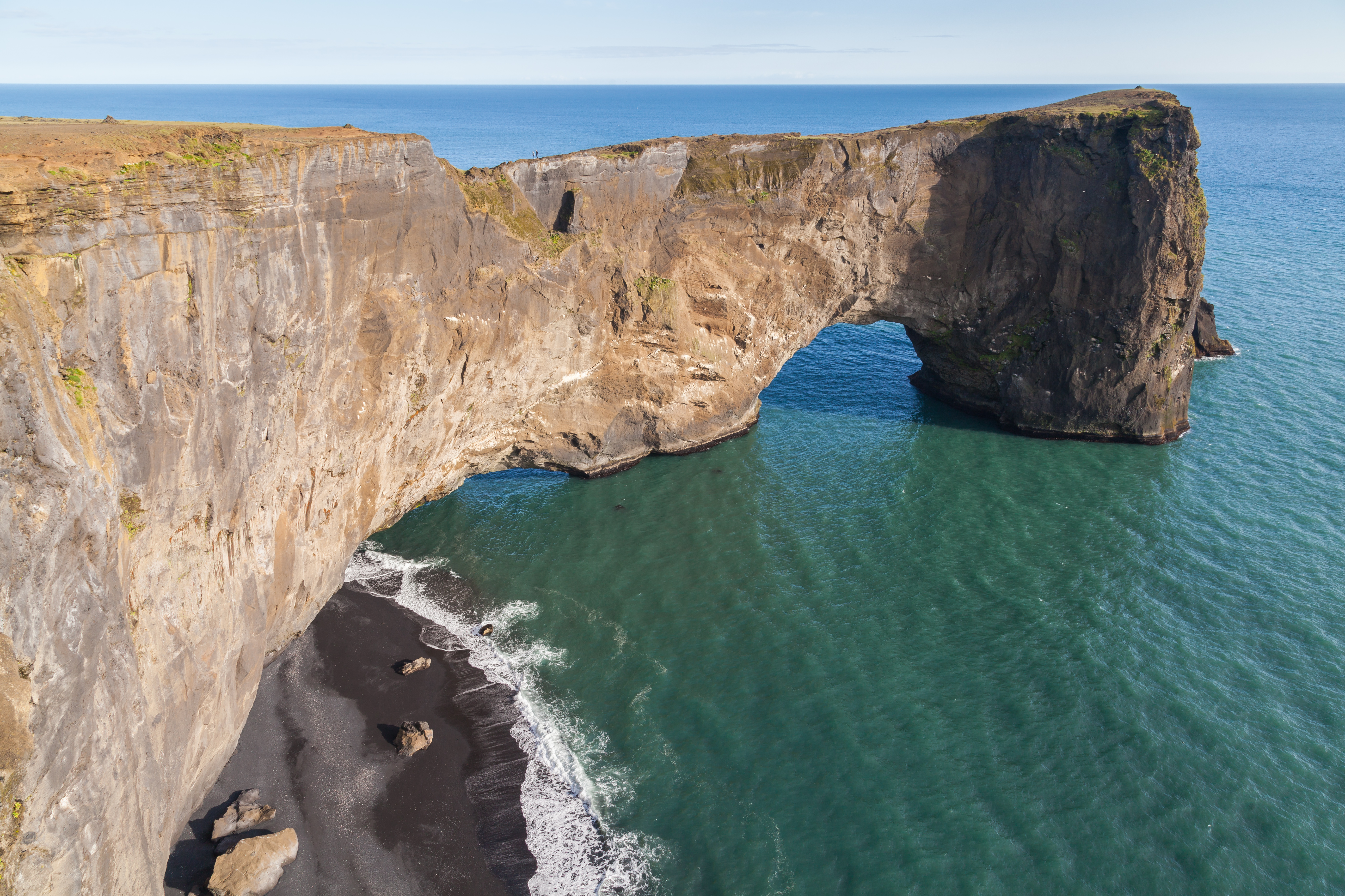 Dyrhólaey, Suðurland, Iceland